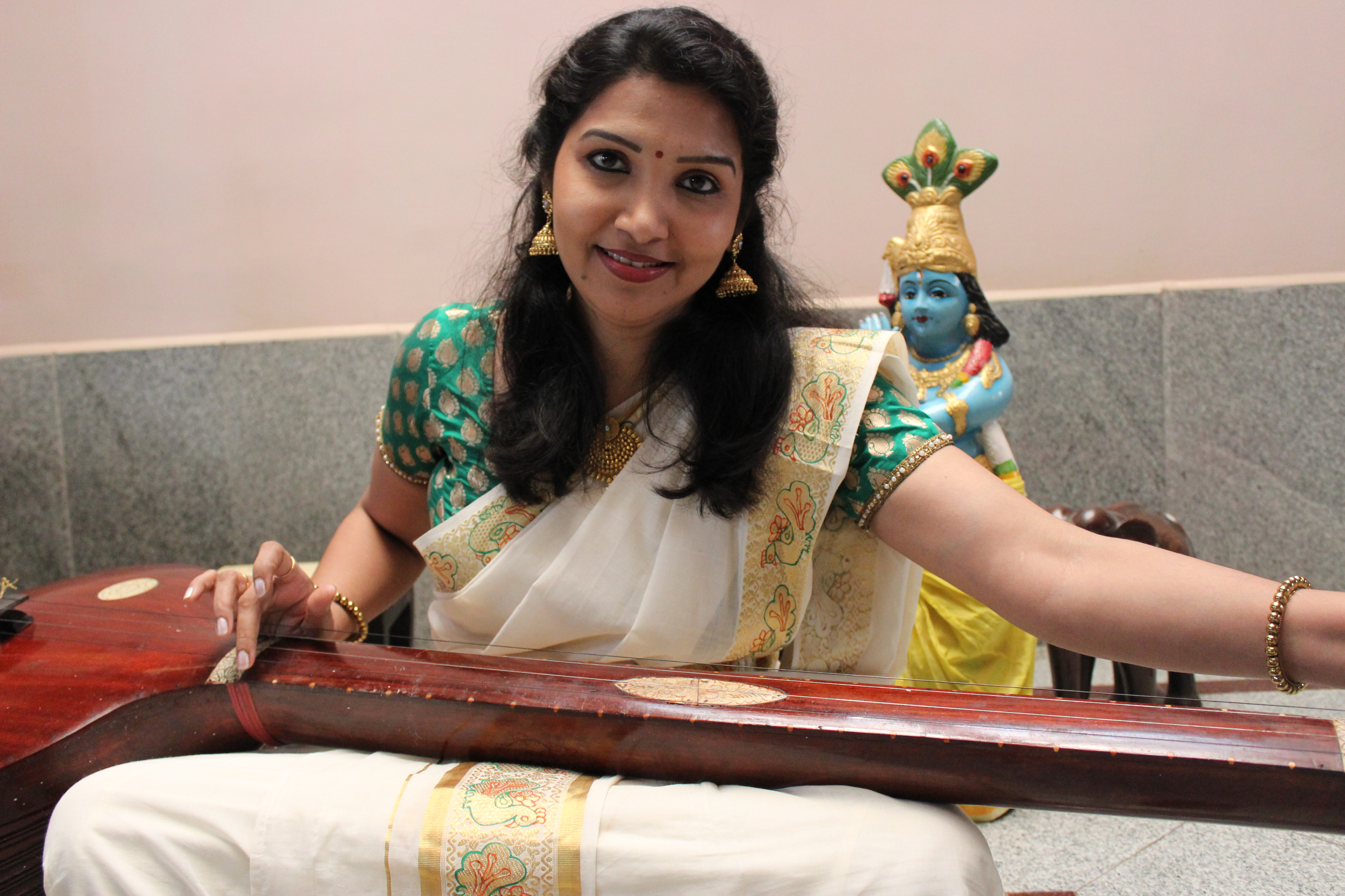 Playback Singer